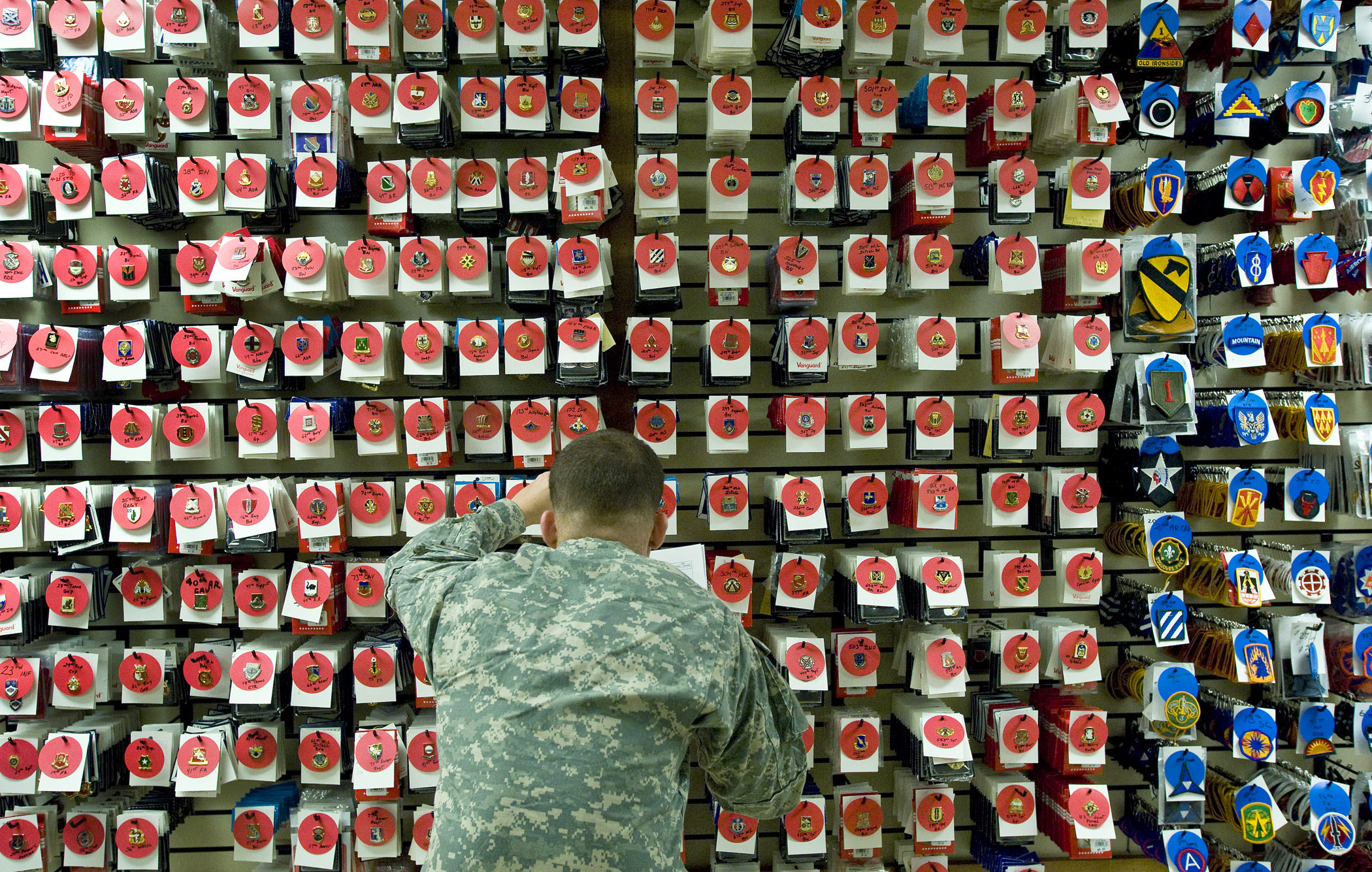 Original caption states, "Specialist Noel Rivera, a mortuary affairs specialist, inventories U.S. Army unit badges from a wall of military uniform items that is kept fully stocked with every U.S. Air Force, Army, Marine, Navy and Coast Guard badge, patch, ribbon or decoration. The uniform section of the Air Force Mortuary Affairs Operations Center at Dover Air Force Base, Del., prepare uniforms for the fallen heroes and work with military escorts for the dignified-transfer-of-remains process. Specialist Rivera is deployed from the Army Reserve, 311th Quartermaster Company in Puerto Rico. "